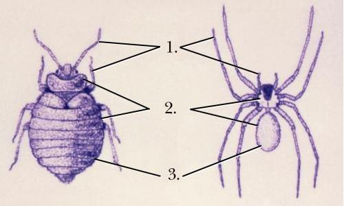 "This drawing of a bed bug and a brown recluse spider shows common body characteristics of the Phylum Arthropoda members." (from PHIL description)